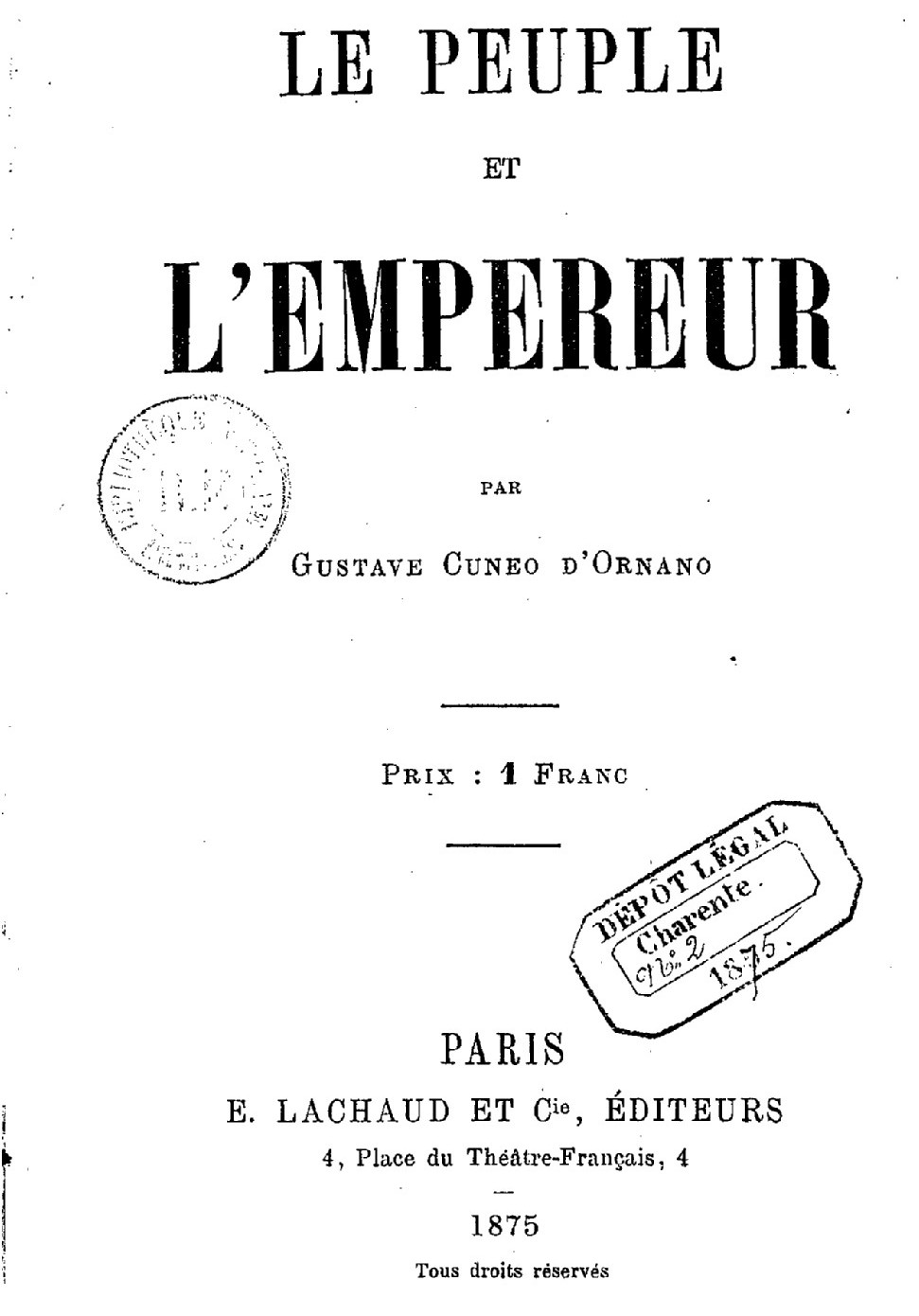 Cover page of Le peuple et l'empereur by Cunéo d'Ornano